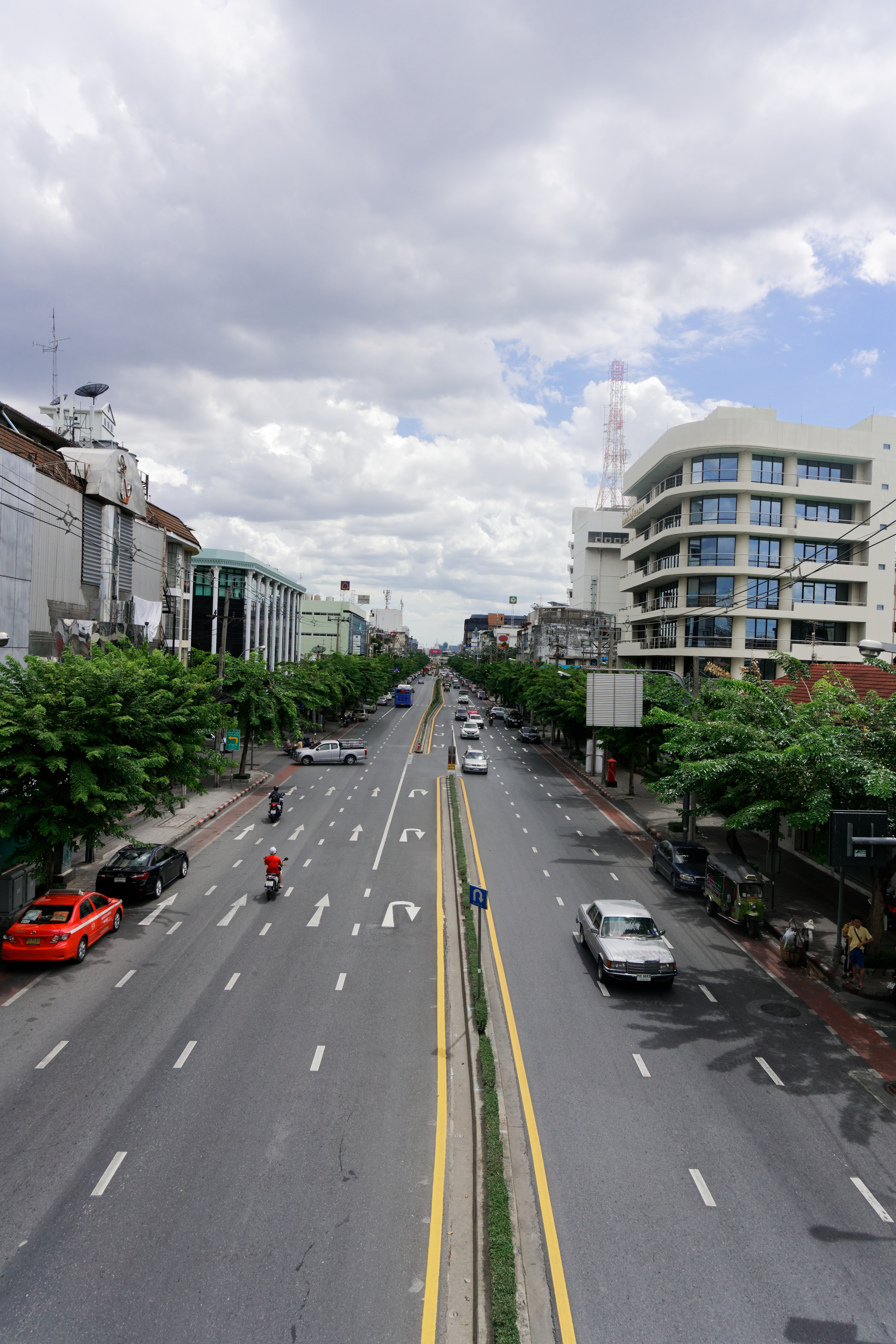 Lat Yaa rd. (View toward king Taksin's statue) The image was shot at the pedestrian bridge near Lat Yaa junction.